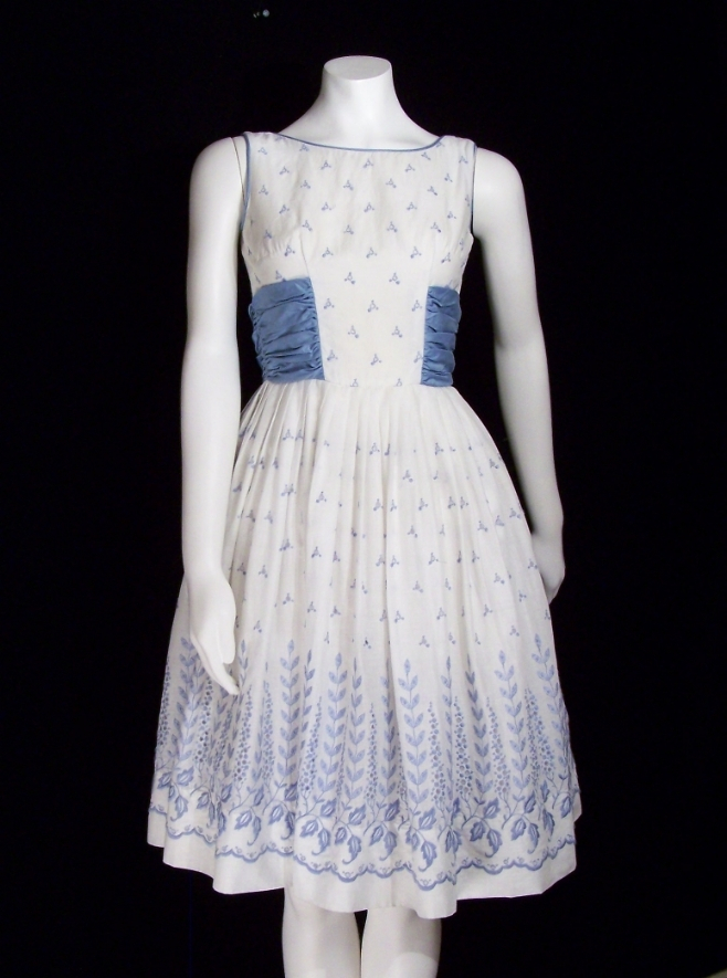 1950s Vintage Cotton Swing Dress